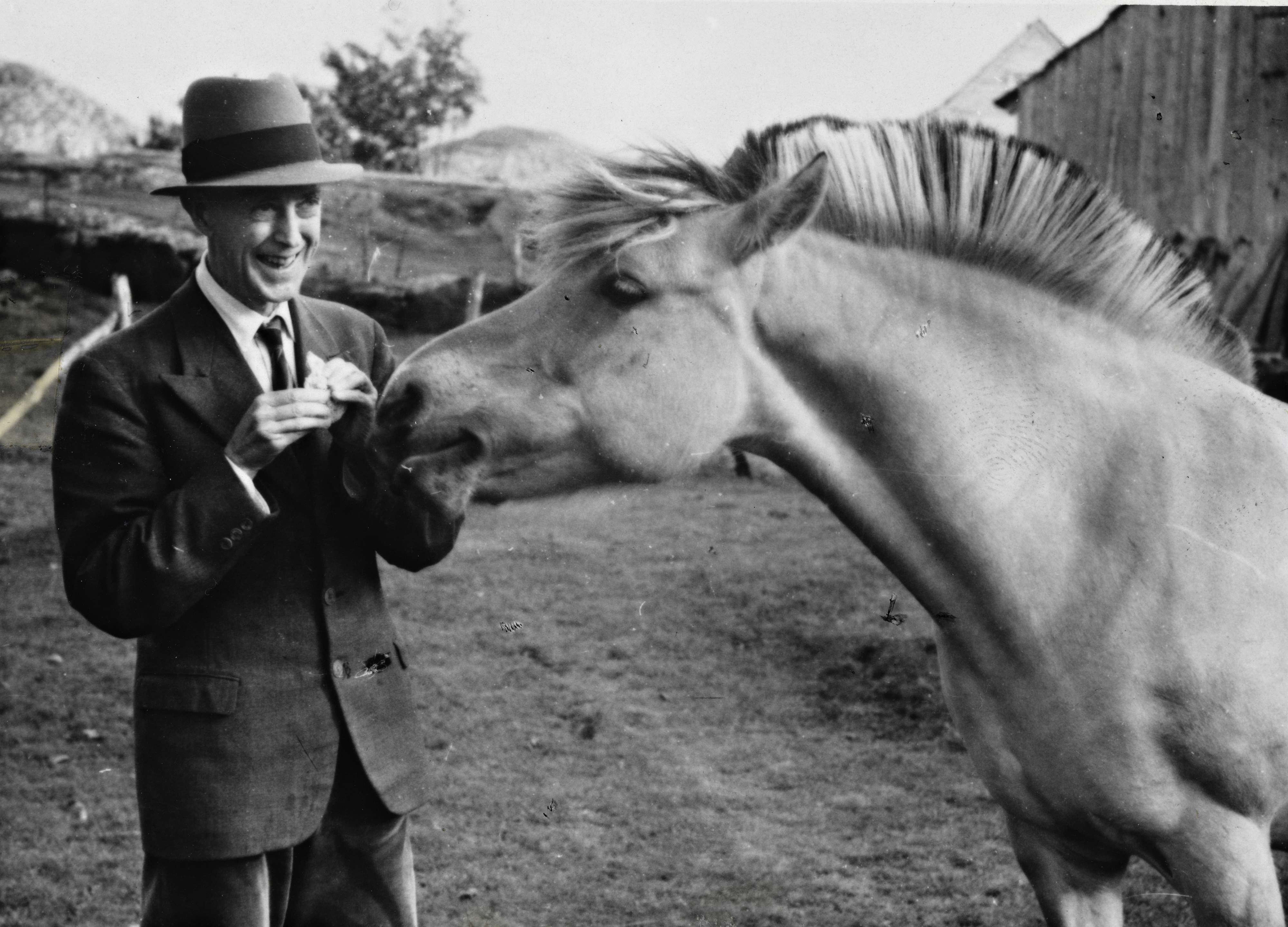 Beskrivelse / Description: Fartein Valen var komponist. Dato / Date: ukjent / unknown Fotograf / Photographer: Trygve Bauer-Nilsen Digital kopi av original / Digital copy of original: s/h papirpositiv Eier / Owner Institution: Nasjonalbiblioteket / National Library of Norway Lenke / Link: Bildesignatur / Image Number: blds_03025